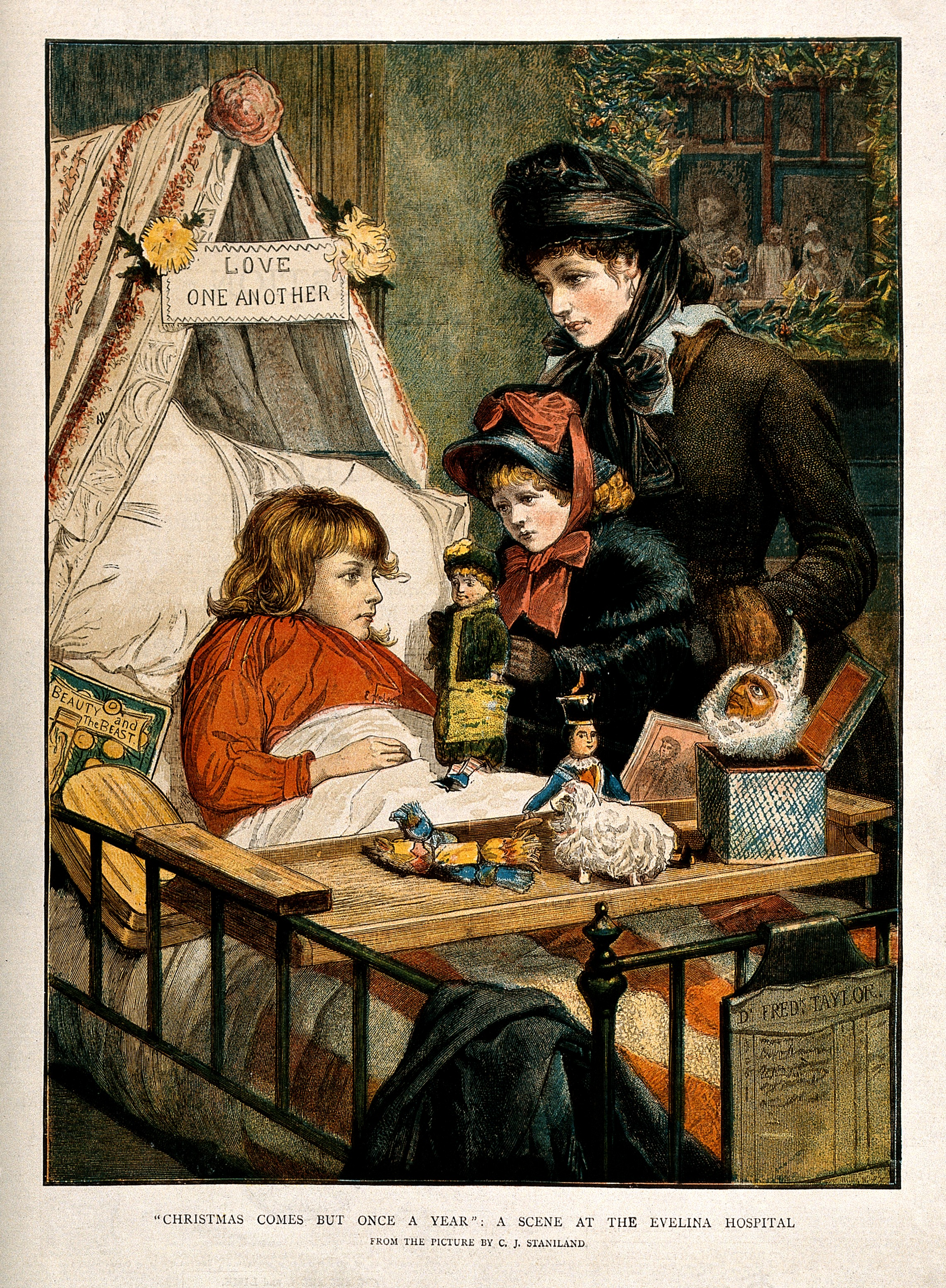 The Evelina Hospital, Southwark: a mother and daughter visiting a small boy. Coloured process print, 1882, after C. J. Staniland. Iconographic Collections Keywords: Evelina de Rothschild; Frederick Taylor; Charles Joseph Staniland